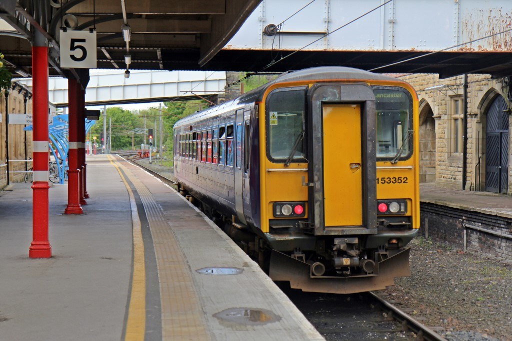 Northern Rail Class 153, 153352, platform 5, Lancaster railway station